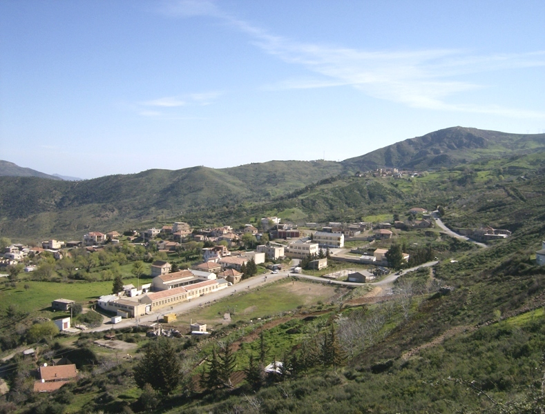 Station thermale d'Assif El Hammam (Hammam Essalihine) en Kabylie (commune d'Adekar, Algérie).